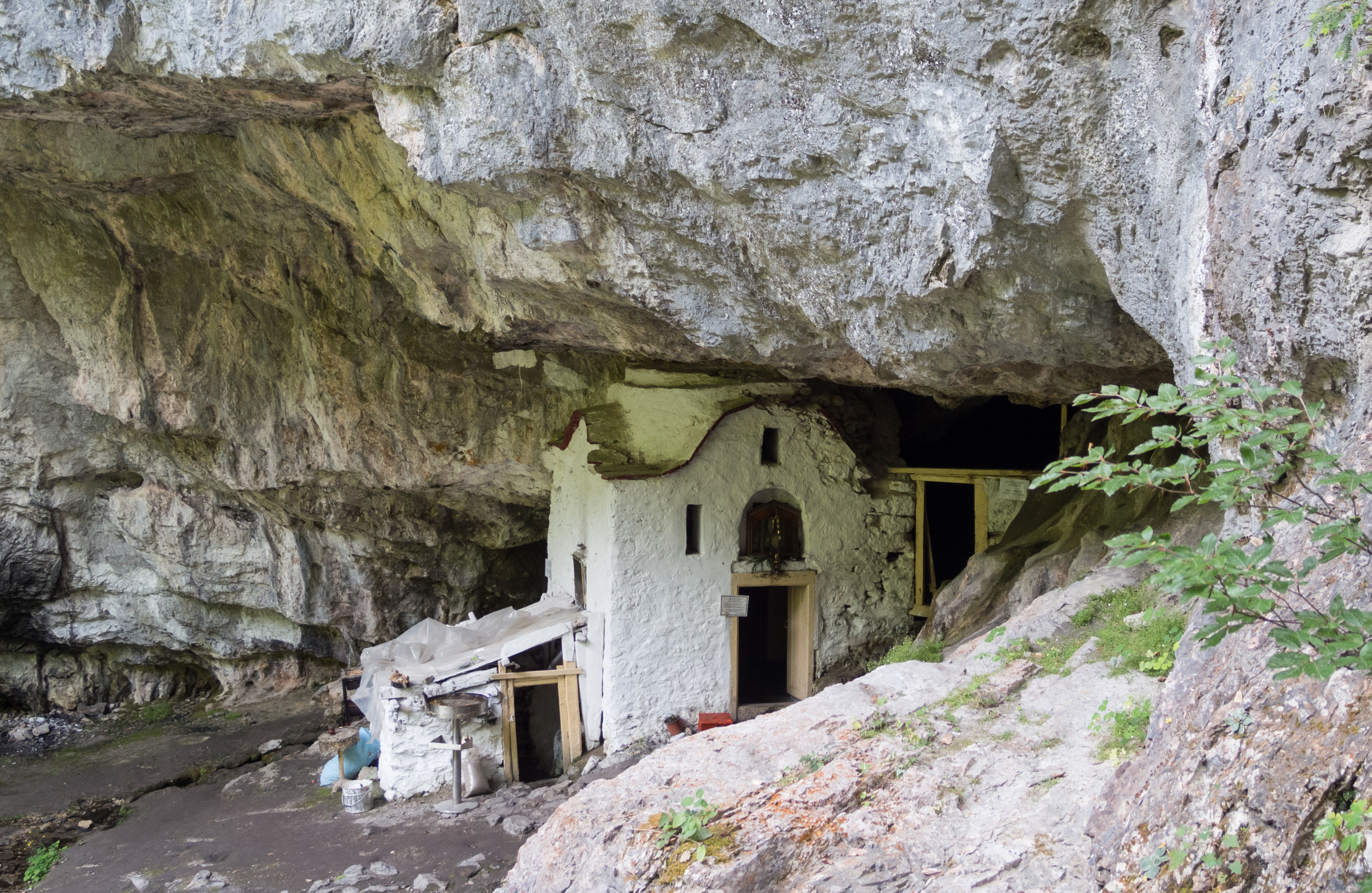 The cave of Saint Dionysios on the Olymp